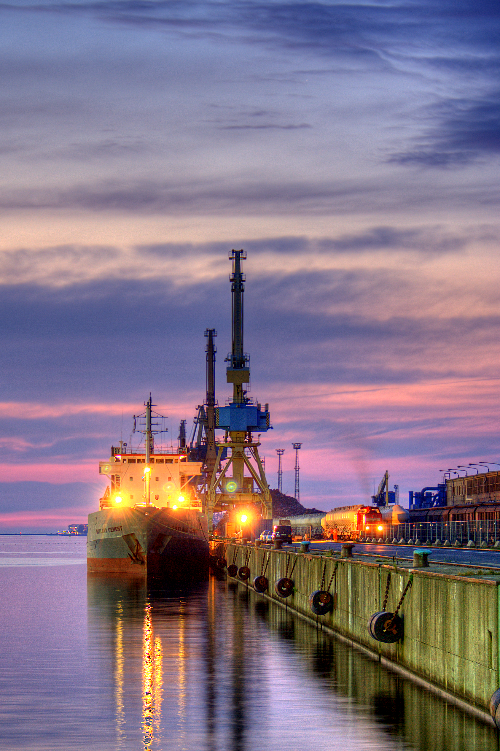 Sunset over Rostock harbour